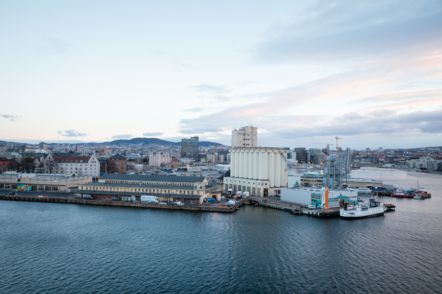 Vippetangen, Oslo in January 2017